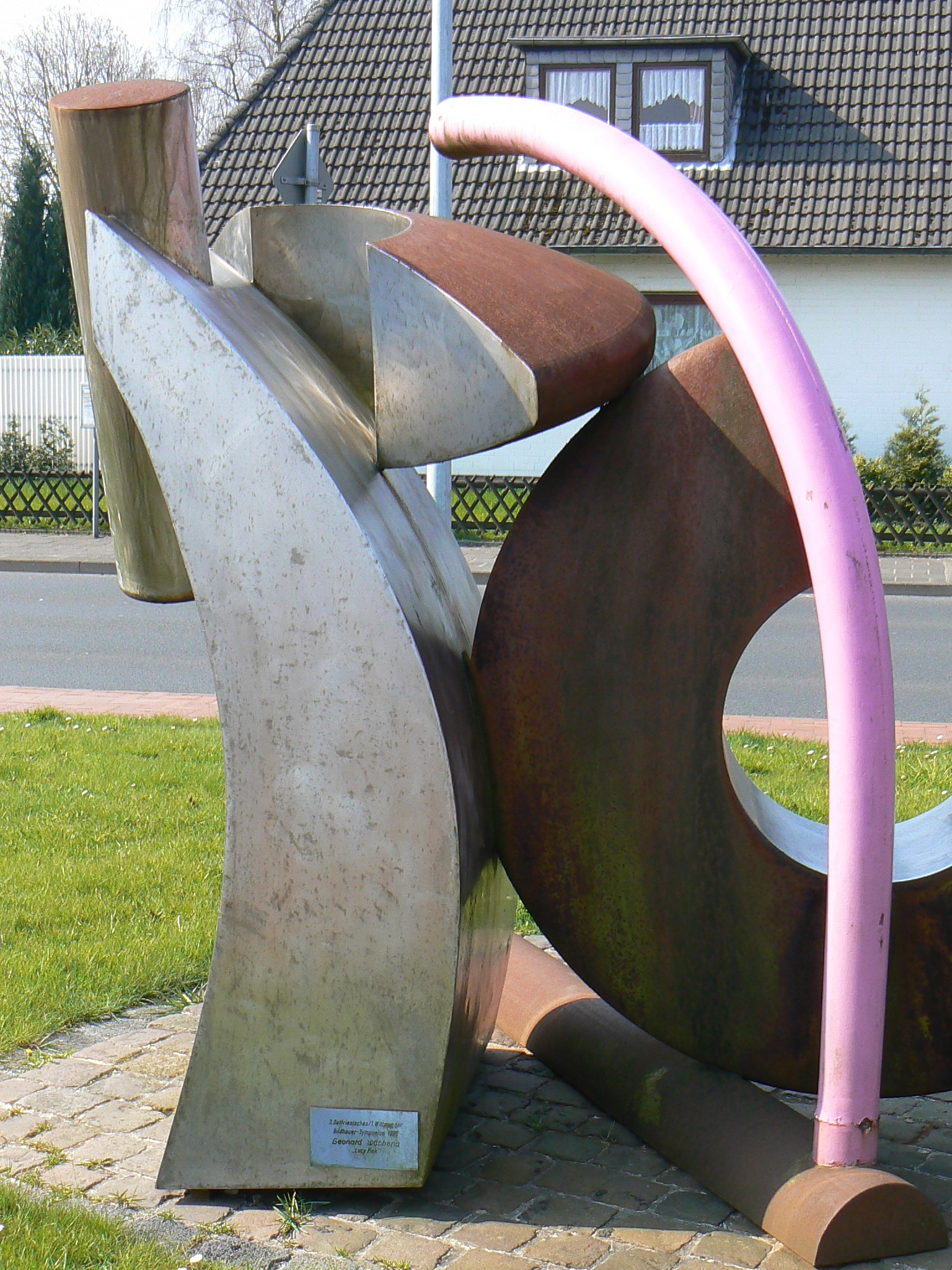 Sculpture in public space Stadt Wittmund/Germany. Own photo. April 1, 2007 K. Siereveld